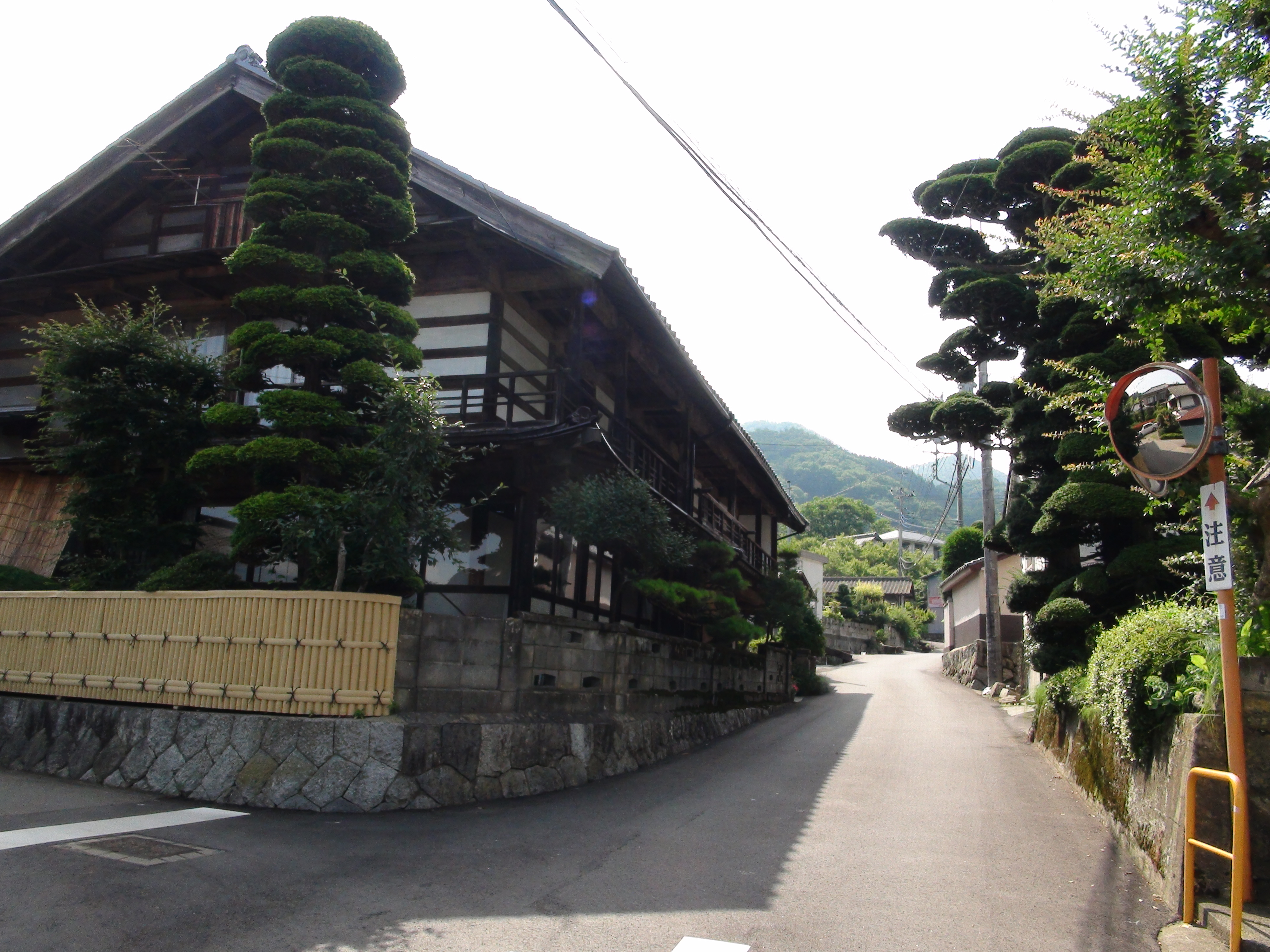 Narabara district Fuefuki City